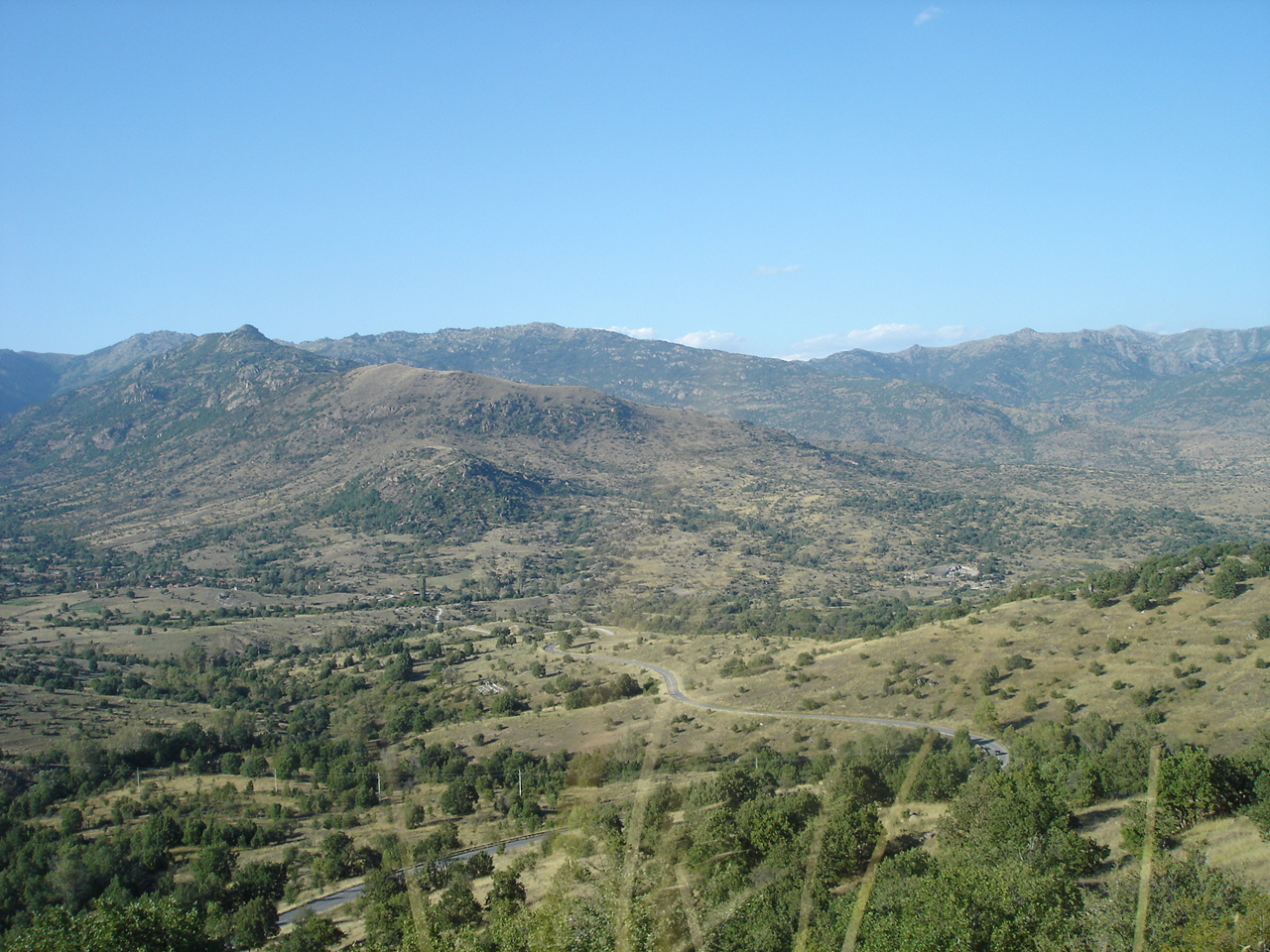 Mariovo region, Macedonia